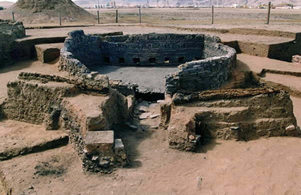 13th century kiln excavated in Karakorum, Mongolia. Kiln was used to heat and harden bricks. Photographed from north east.